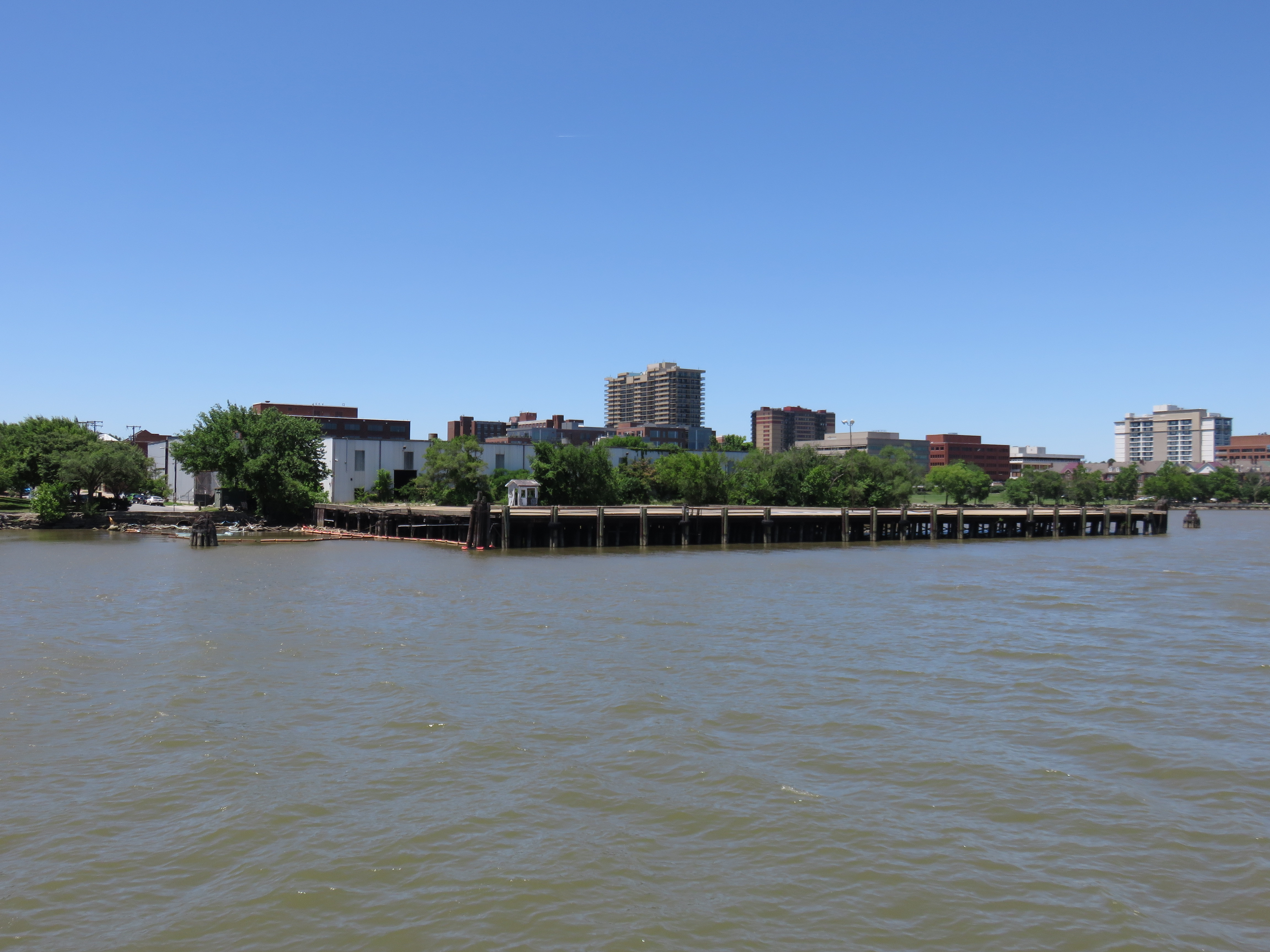 Robinson Terminal North in Alexandria, Virginia viewed from the Potomac water taxi in 2019